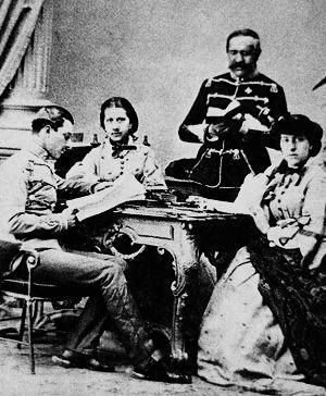 Duke Alexander of Wurtemberg and sons (left to right): count Francis of Hohenstein (later prince Francis of Teck, and later on Duke of Teck), countess Claudine (later princess Claudine of Teck) and countess Amelie of Hohenstein (later married countess Amelie of Hügel)